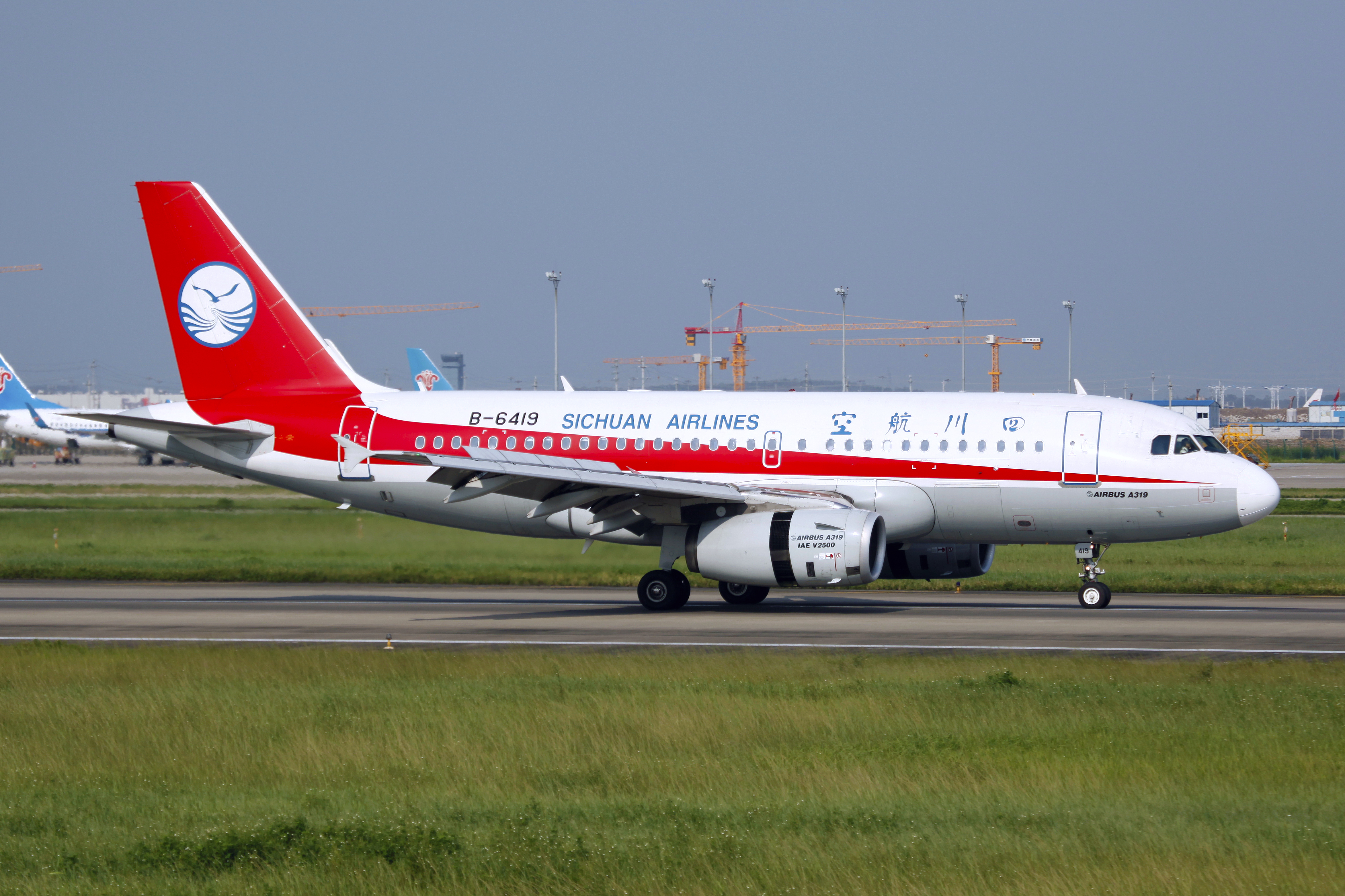 B-6419 | Sichuan Airlines | Airbus A319-133 | Guangzhou Baiyun International Airport [CAN]